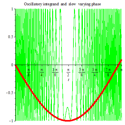 Oscillatory integrand and slow varying phase